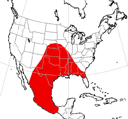 Range of Synthetoceras based on fossil record